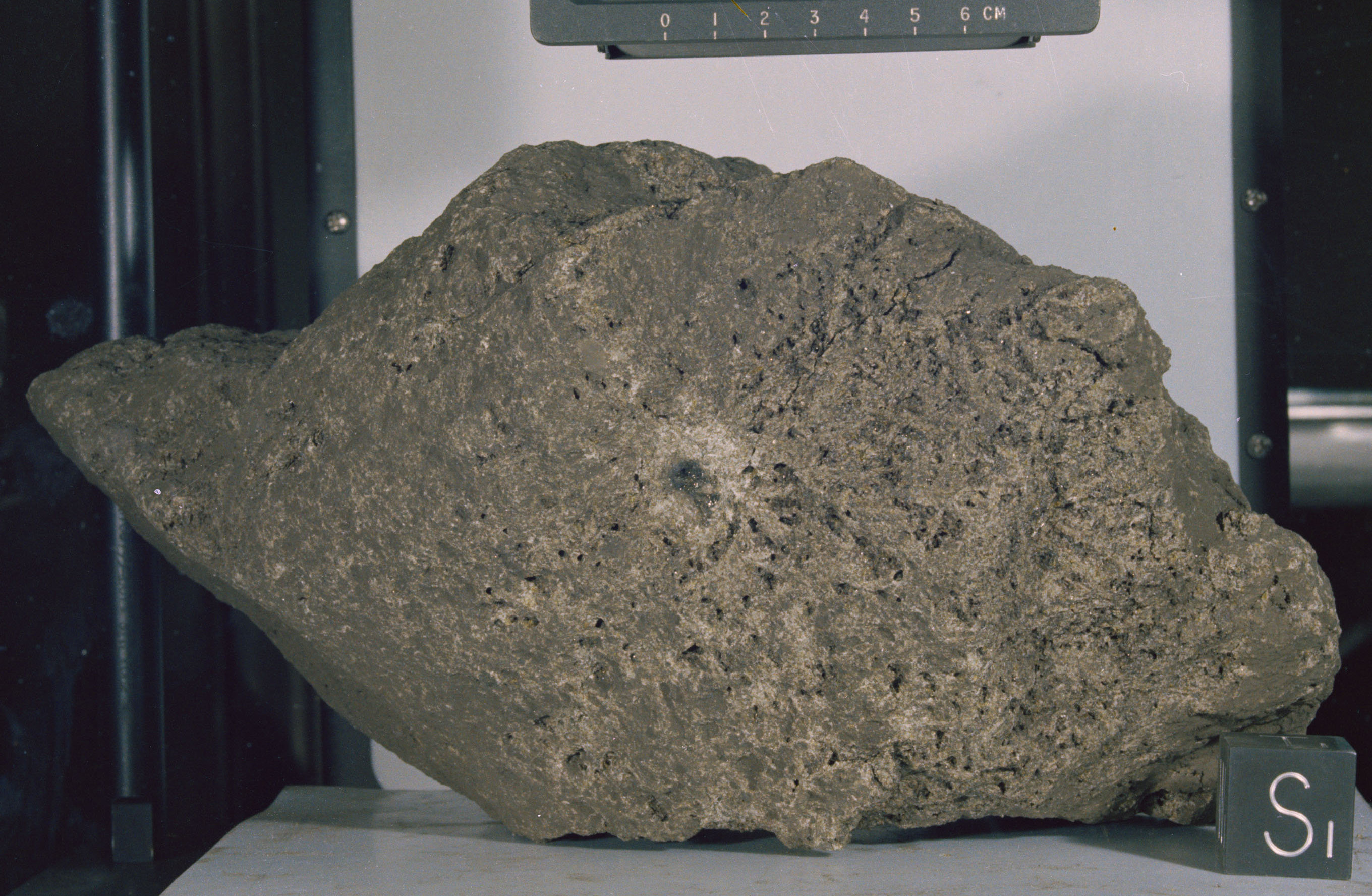 Lunar sample 15555, better known as Great Scott, collected on Apollo 15 at station 9A, near Hadley Rille.